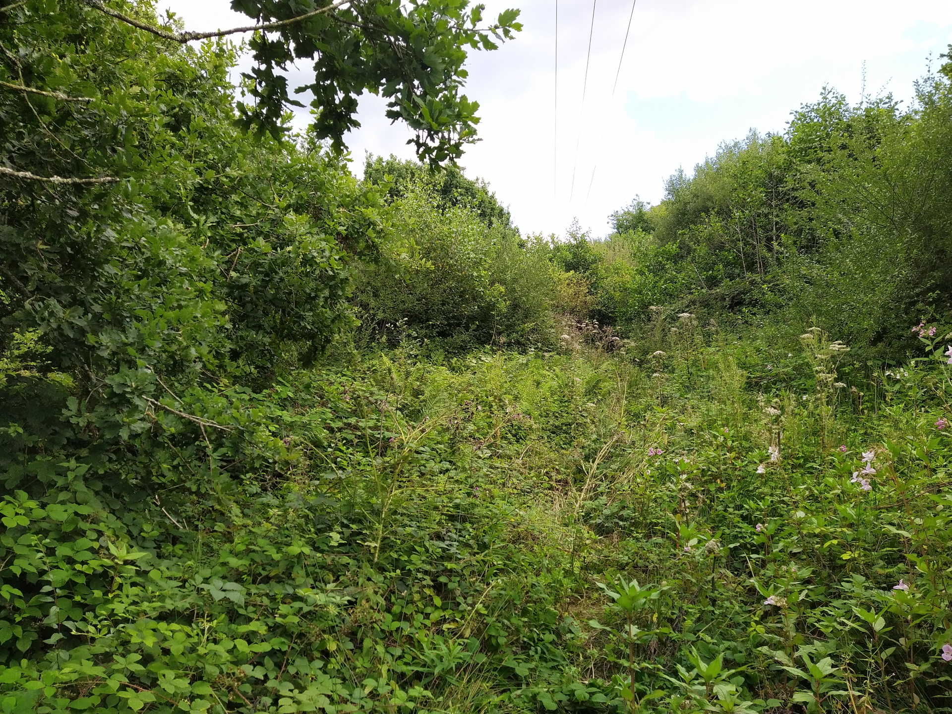 This is the original 1905-1930 Tonteg Halt. The area is now totally overgrown and unrecognisable. The track to the east of here towards Trefforest has been destroyed by the Church Village Bypass.